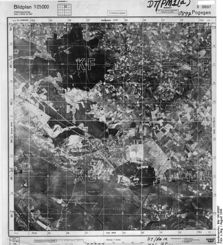 Pogegen Information added by Wikimedia users.